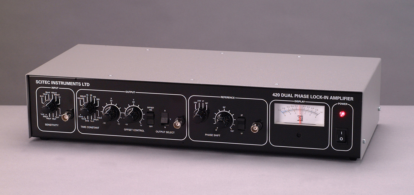 Dual Phase Analogue Lock-in Amplifier